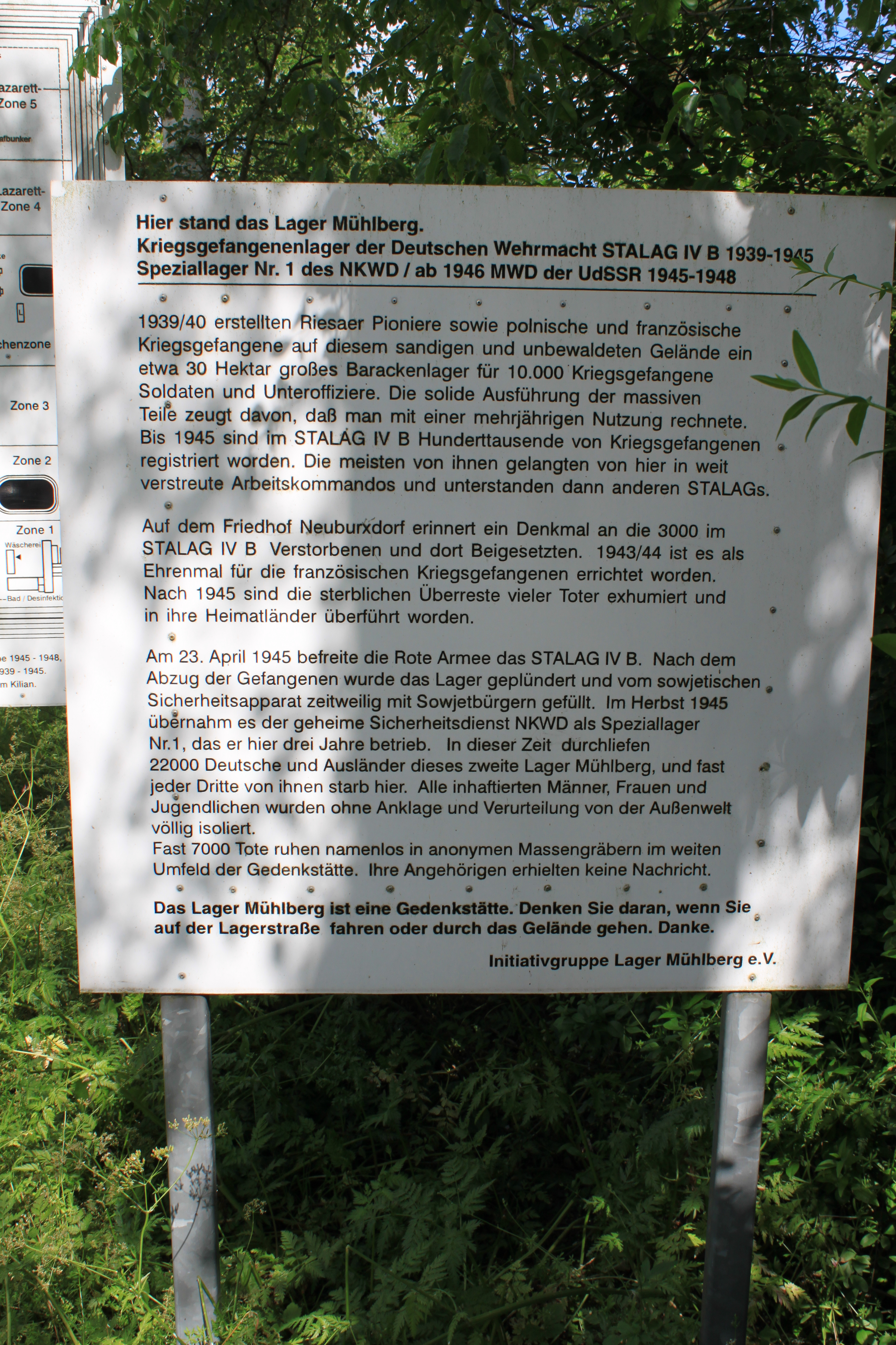 Memorial of the Stalag IVB/Speziallager Nr. 1 Mühlberg/Elbe